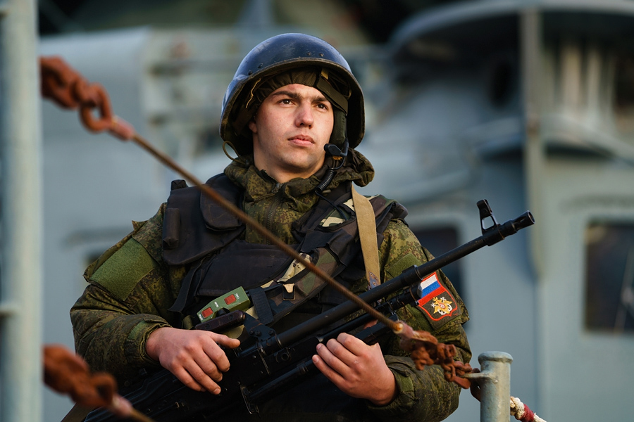 Permanent group of the Russian Navy in the Mediterranean Sea provides air defence in Syria